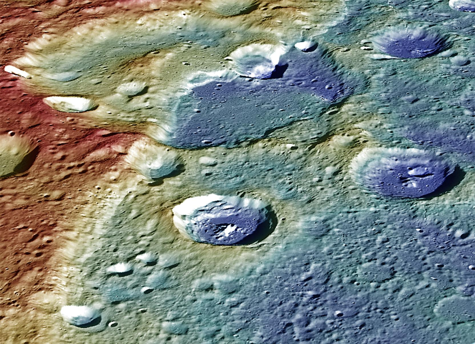 PIA19422: A Striking Perspective This image provides a perspective view of the center portion of Carnegie Rupes, a large tectonic landform, which cuts through Duccio crater. The image shows the terrain (variations in topography) as measured by the MLA instrument and surface mapped by the MDIS instrument. The image was color-coded to highlight the variations in topography (red = high standing terrain, blue = low lying terrain). Tectonic landforms such as Carnegie Rupes form on Mercury as a response to interior planetary cooling, resulting in the overall shrinking of the planet. To make this graphic, 48 individual MDIS images were used as part of the mosaic. Instruments: Mercury Dual Imaging System (MDIS) and Mercury Laser Altimeter (MLA) Latitude: 57.1° Longitude: 304.0° E Scale: Duccio crater has a diameter of roughly 105 kilometers (65 miles) Height: Portions of Carnegie Rupes are nearly 2 kilometers (1.2 miles) in height Orientation: North is roughly to the left of the image The MESSENGER spacecraft is the first ever to orbit the planet Mercury, and the spacecraft's seven scientific instruments and radio science investigation are unraveling the history and evolution of the Solar System's innermost planet. In the mission's more than four years of orbital operations, MESSENGER has acquired over 250,000 images and extensive other data sets. MESSENGER's highly successful orbital mission is about to come to an end, as the spacecraft runs out of propellant and the force of solar gravity causes it to impact the surface of Mercury in April 2015.